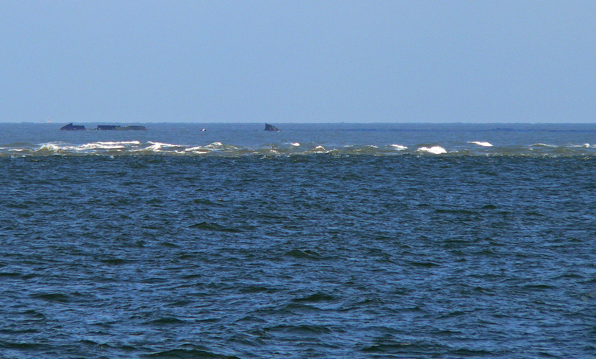 Wreck of the 'Ondo' on the 'Grosser Vogelsand